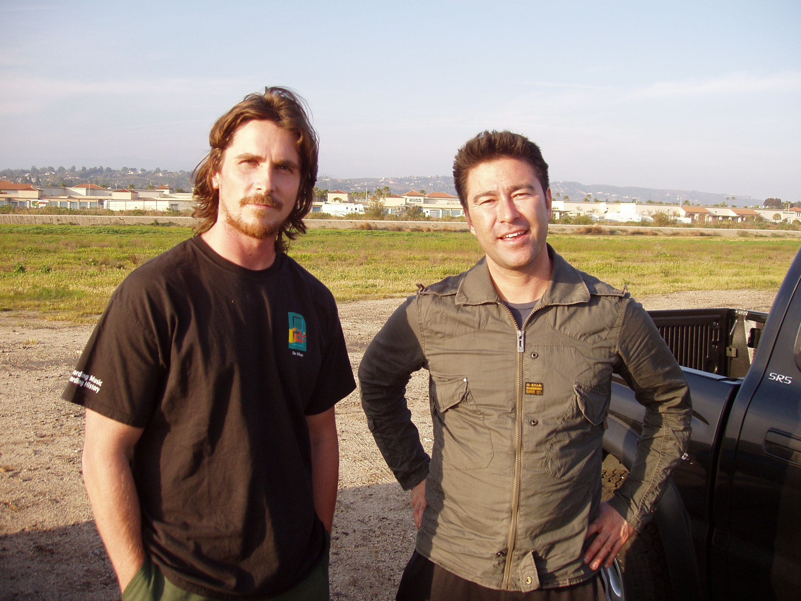 Stunt driving weekend. Christian is one of the greatest actors of our era. Lucky to have spent the weekend crashing into pylons with him.